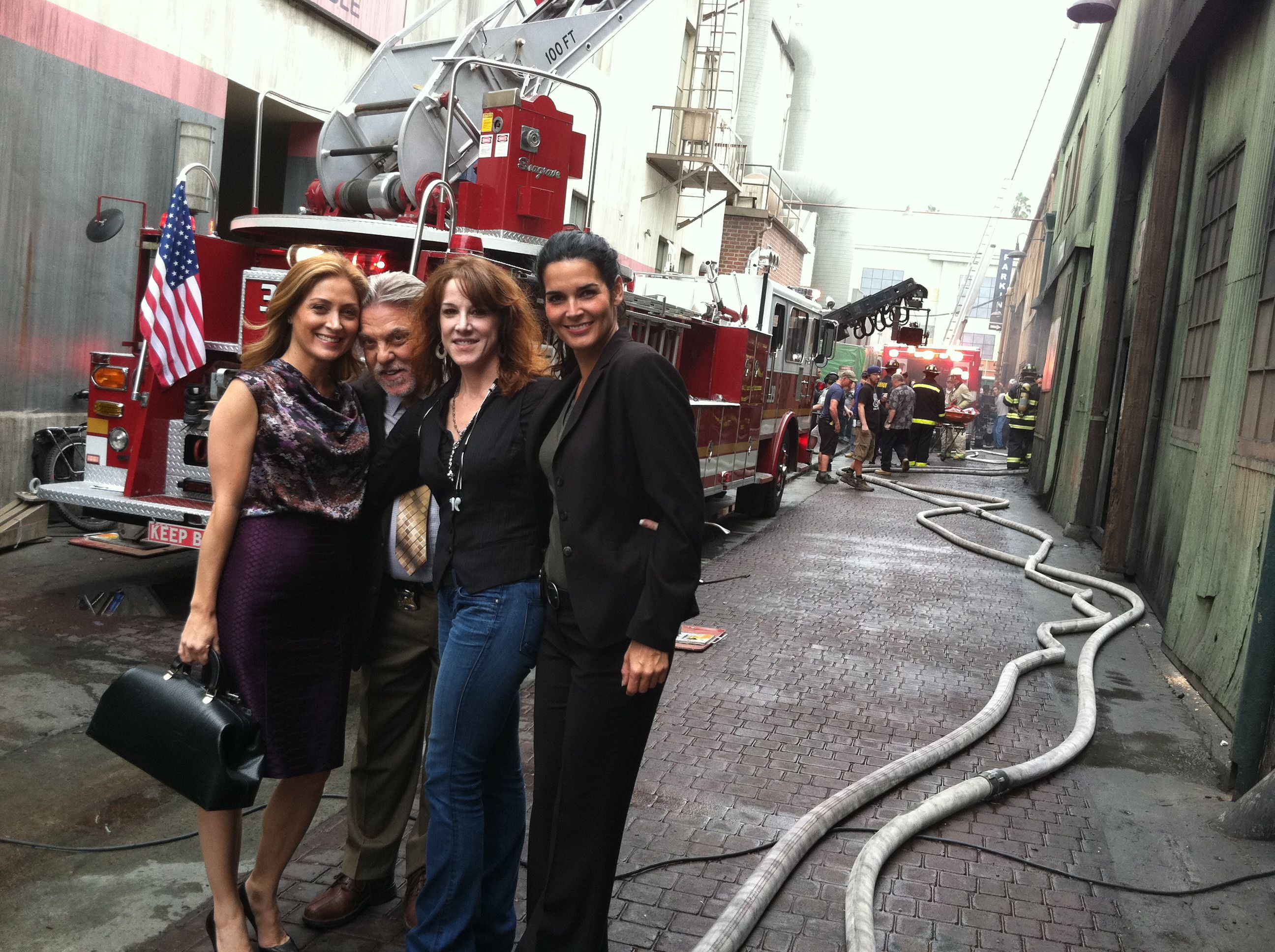 Sasha Alexander, Bruce McGill, Janet Tamaro and Angie Harmon